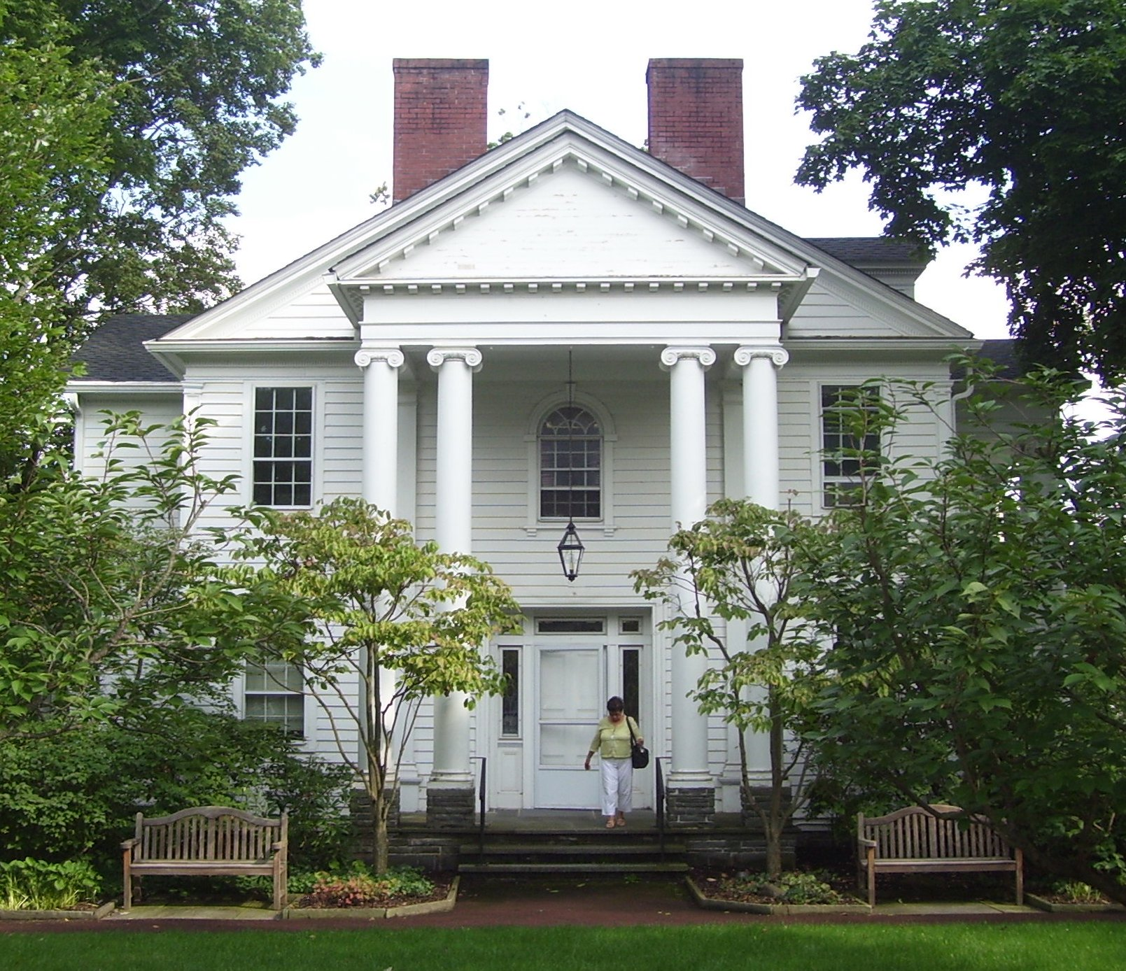 The Milford Branch of the Pike County Public Library, located in the Community House, 201 Broad Street, Milford, Pennsylvania.